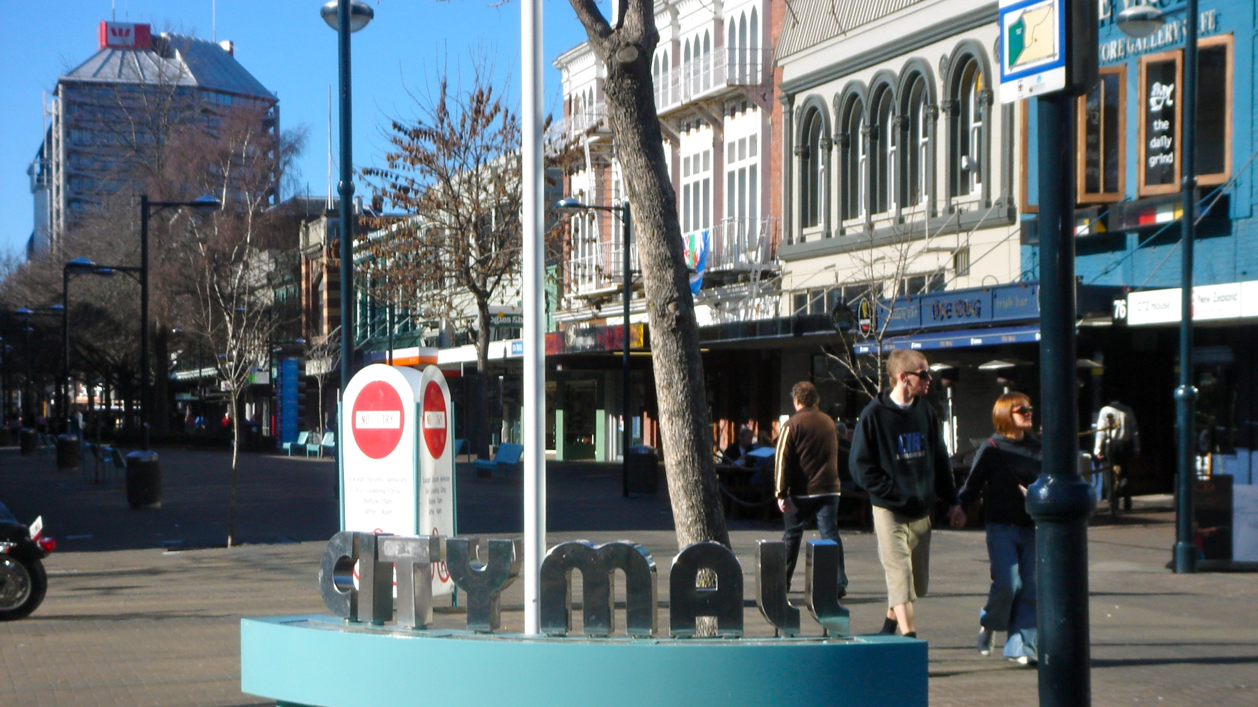 City Mall (Cashel Street) on 24 July 2005.